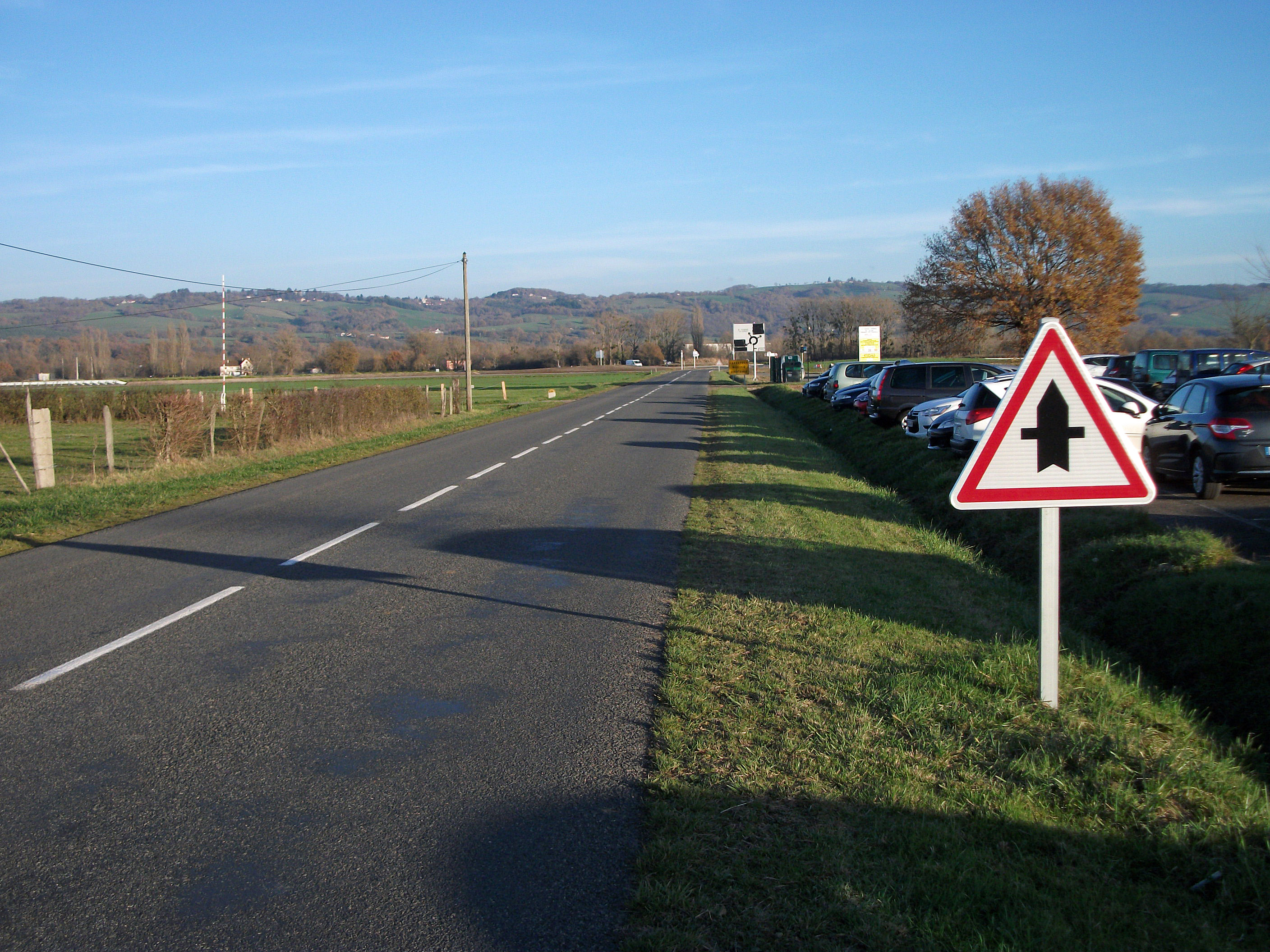 Punctual priority road sign in departmental road 434 near Saint-Sylvestre-Pragoulin, Puy-de-Dôme, Auvergne (Auvergne-Rhône-Alpes), France. [9448]